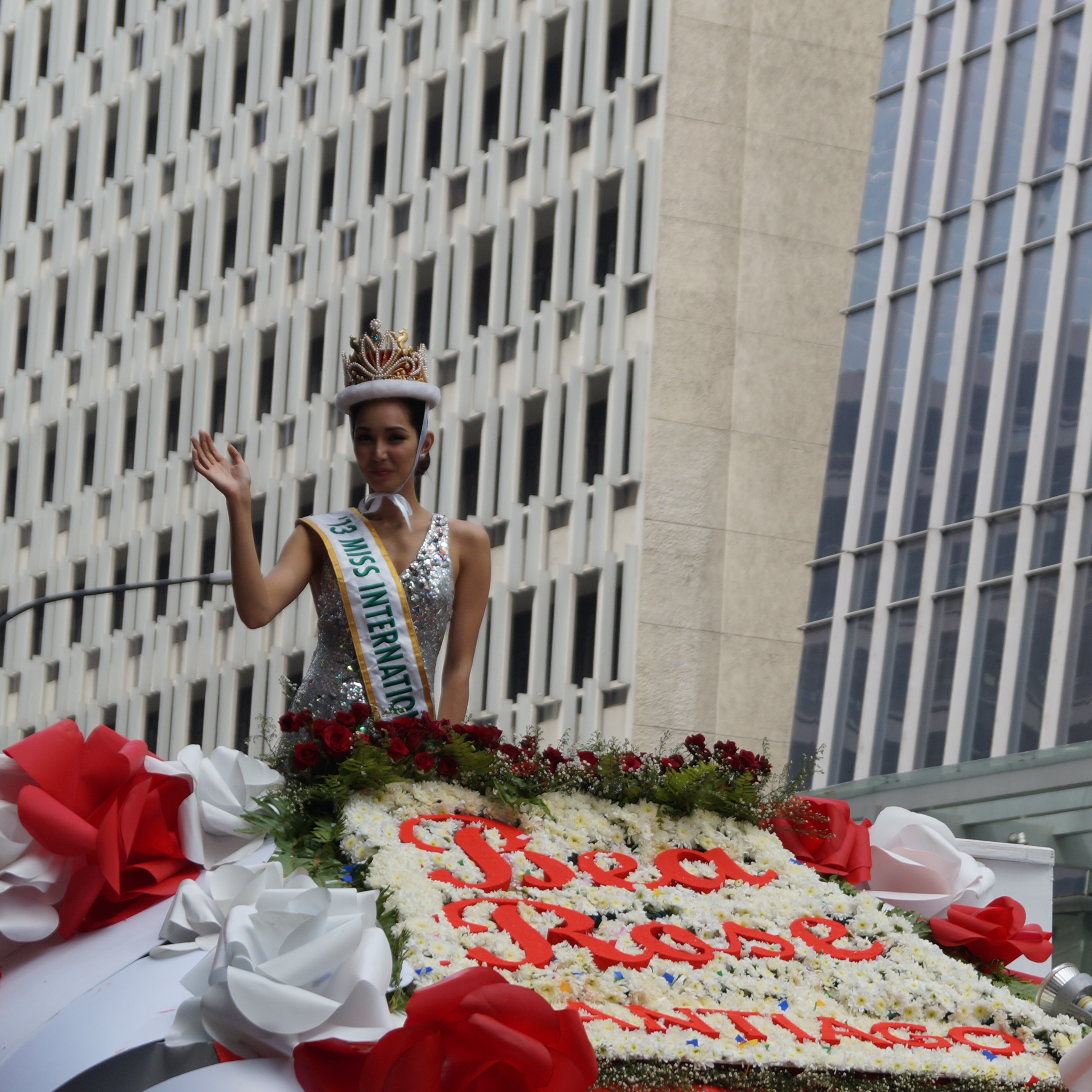 Bea Rose Santiago during a parade.